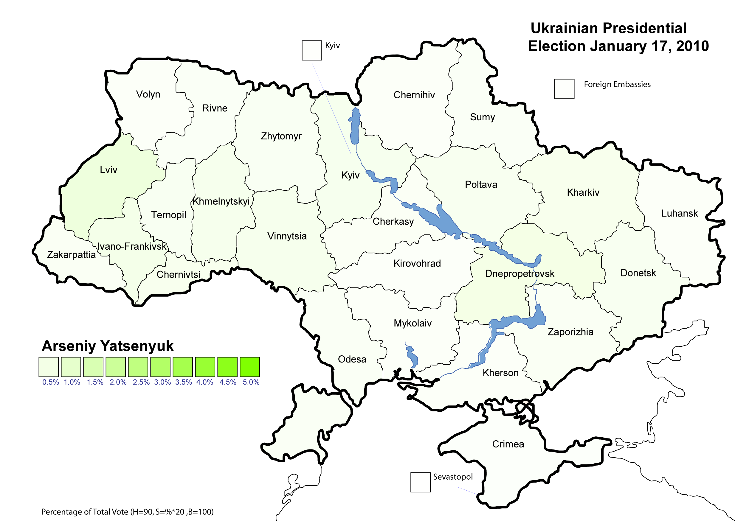 Ukrainian Presidential Election January 17, 2010 - Arseniy Yatsenyuk (First Round)